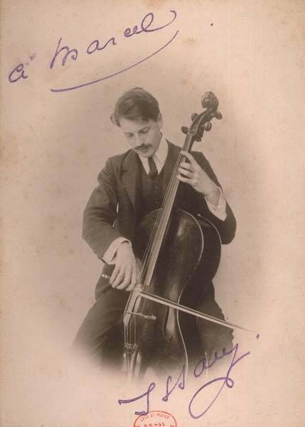 Illan de Casa Fuerte (1882-1962) = Illan Alvarez de Toledo y Lefebre. Dedicated 'a Marcel' = Marcel Proust